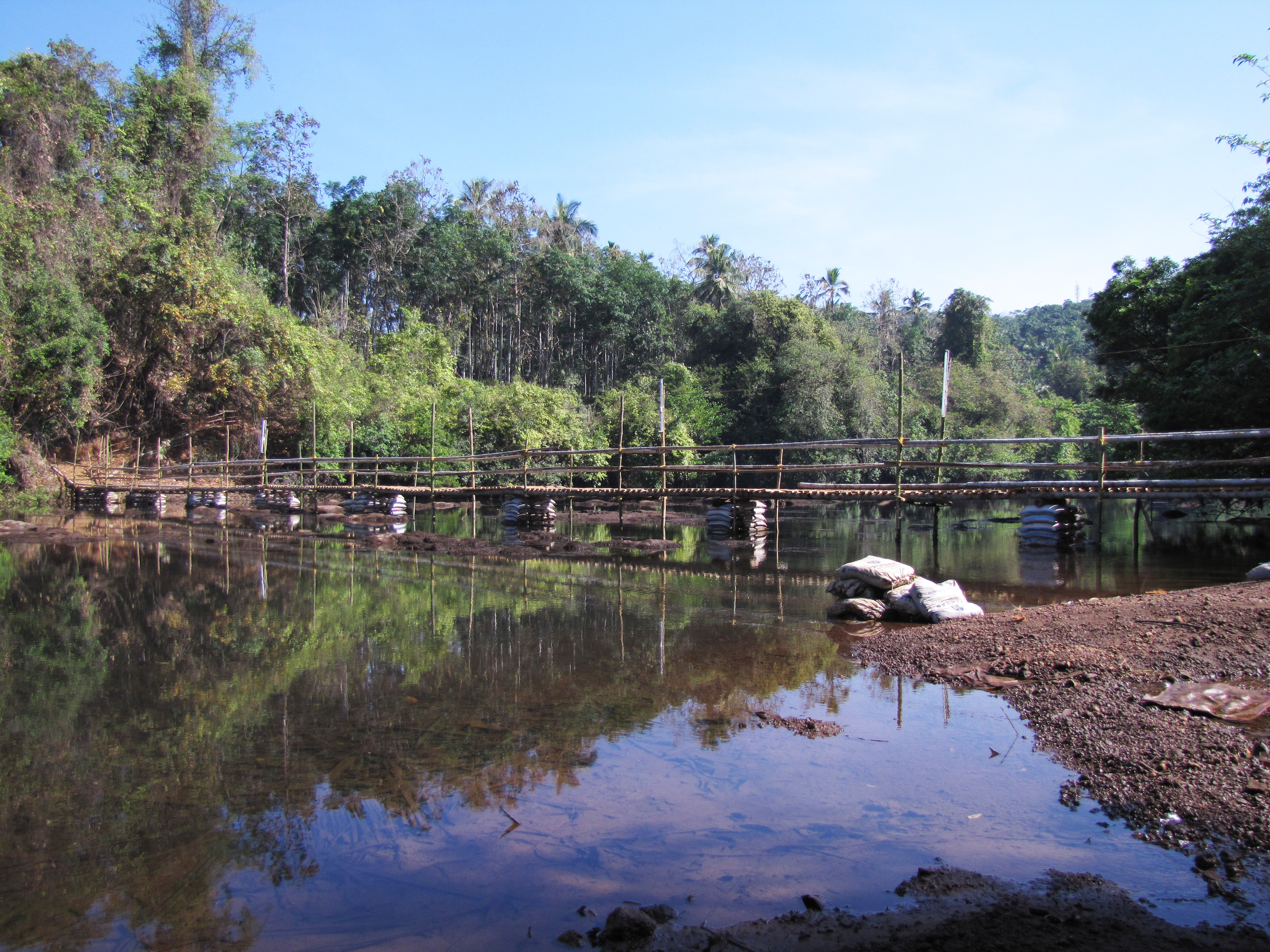 Bridge across Kuppam River at Muchilottu during the festival at Muchilottu Bhagavathi Temple. It helps the people of both side to cross the river easily.